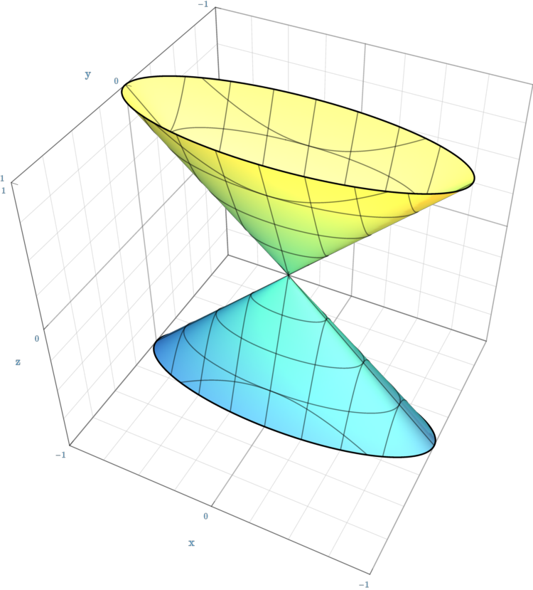 A cone. Made with Mathematica.